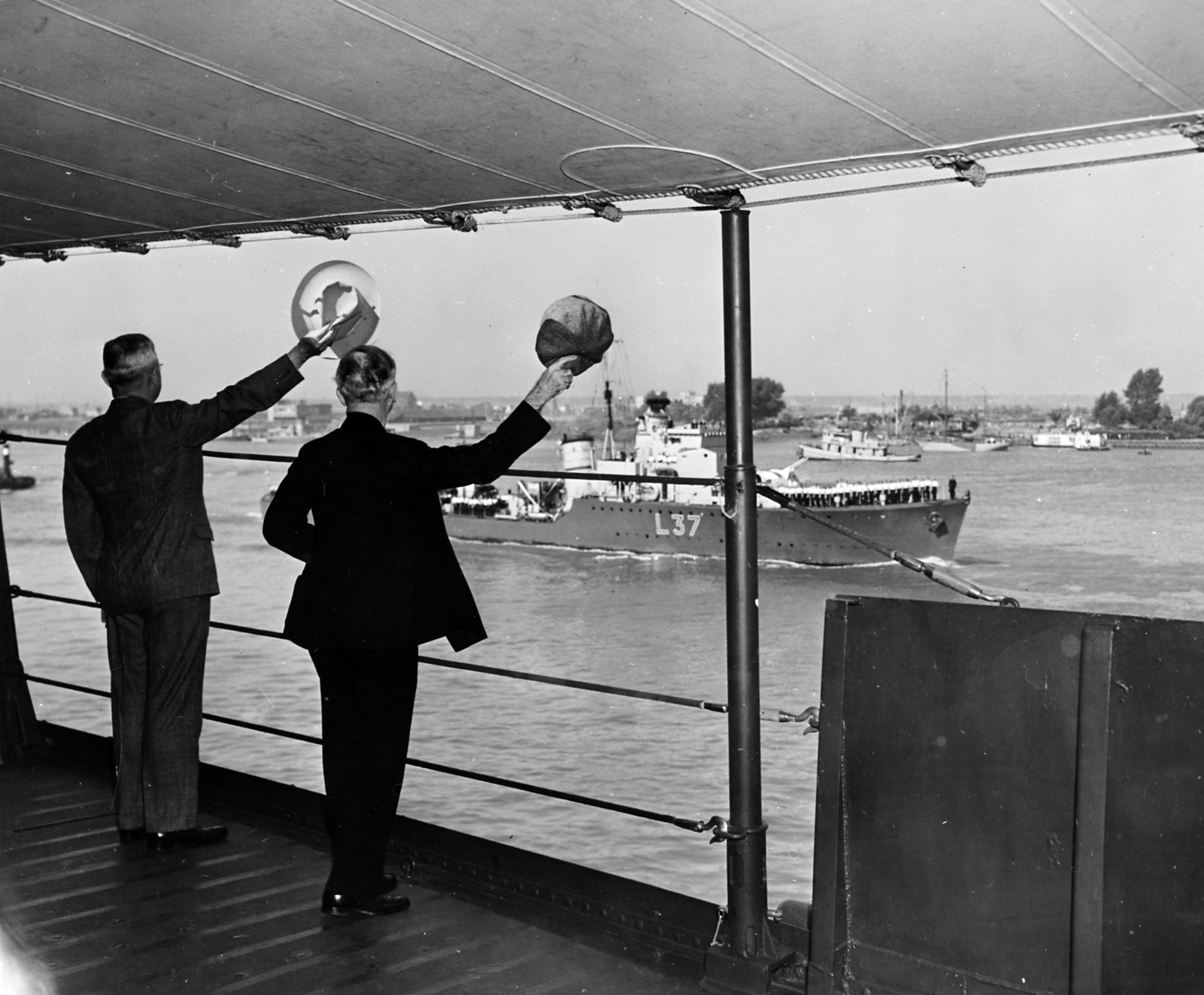 The U.S. president Harry S. Truman and foreign minister James Byrnes acknowledge honours rendered by the British Hunt-class destroyer HMS Hambledon (L37) which had escorted U.S. cruiser USS Augusta (CA-31) to the River Scheldt in the Netherlands on 15 August 1945. Truman and Byrnes were traveling to the Potsdam Conference in Germany.